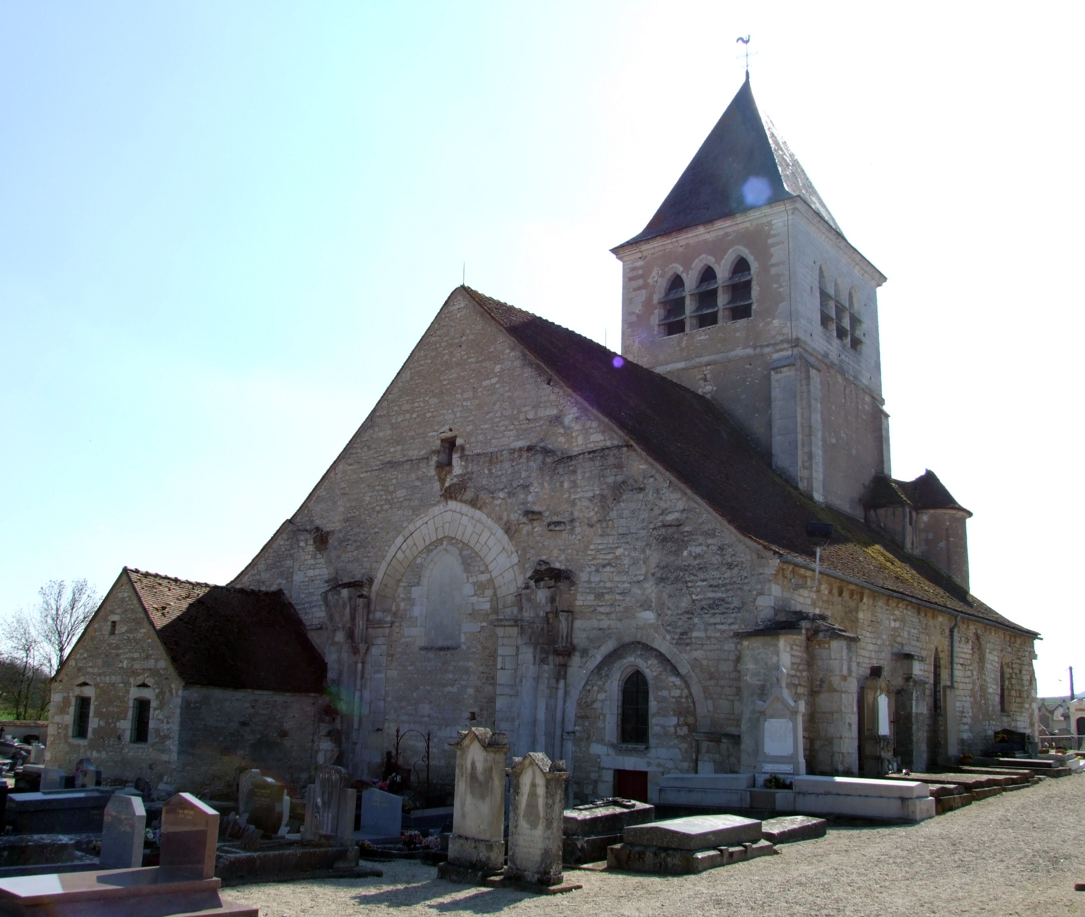 Saint-Pierre church, Chablis, Burgundy, FRANCE